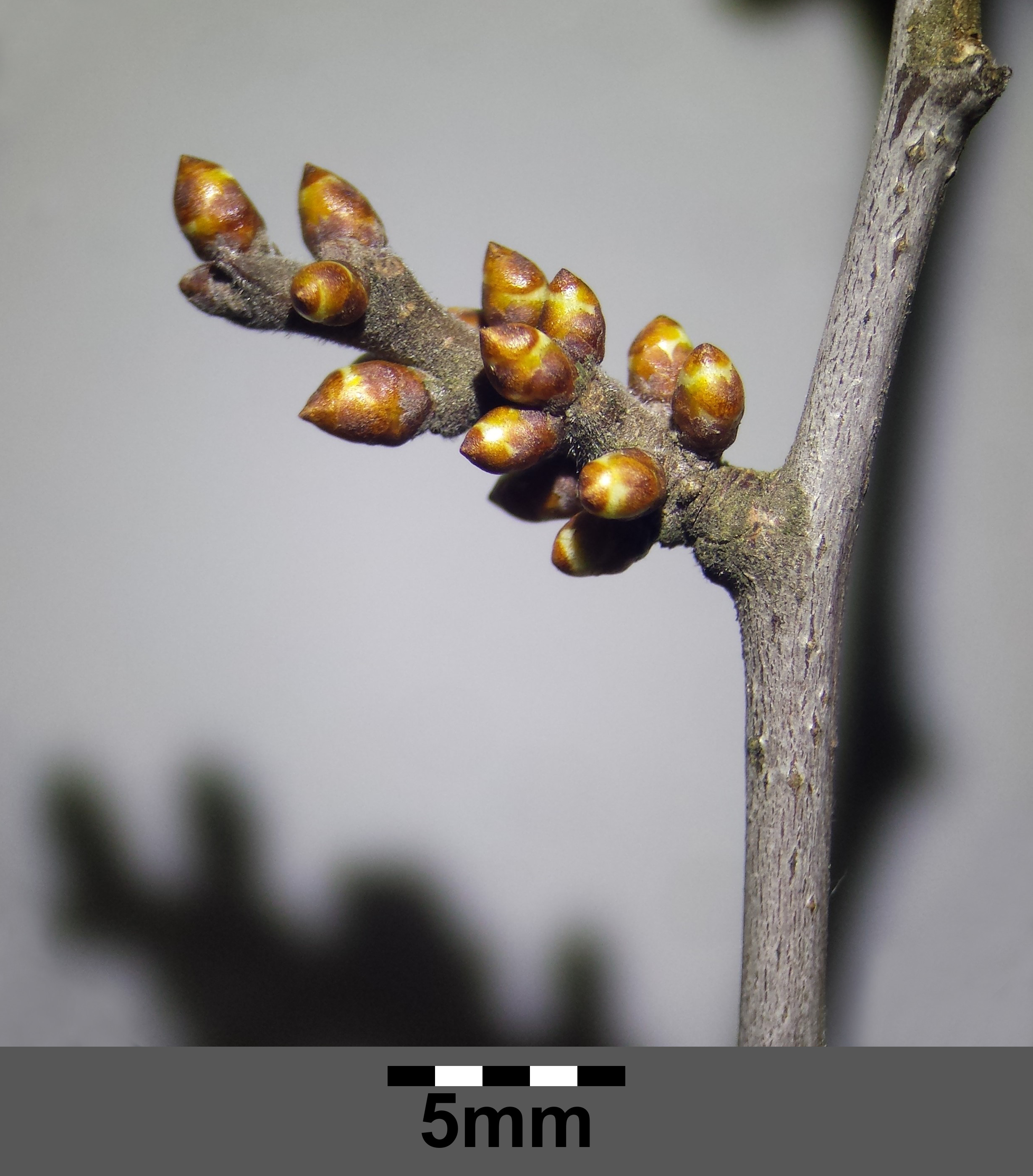 Buds Taxonym: Prunus spinosa ss Fischer et al. EfÖLS 2008 ISBN 978-3-85474-187-9 Location: near Niederhollabrunn, district Korneuburg, Lower Austria - ca. 300 m a.s.l. Habitat: shrubbery